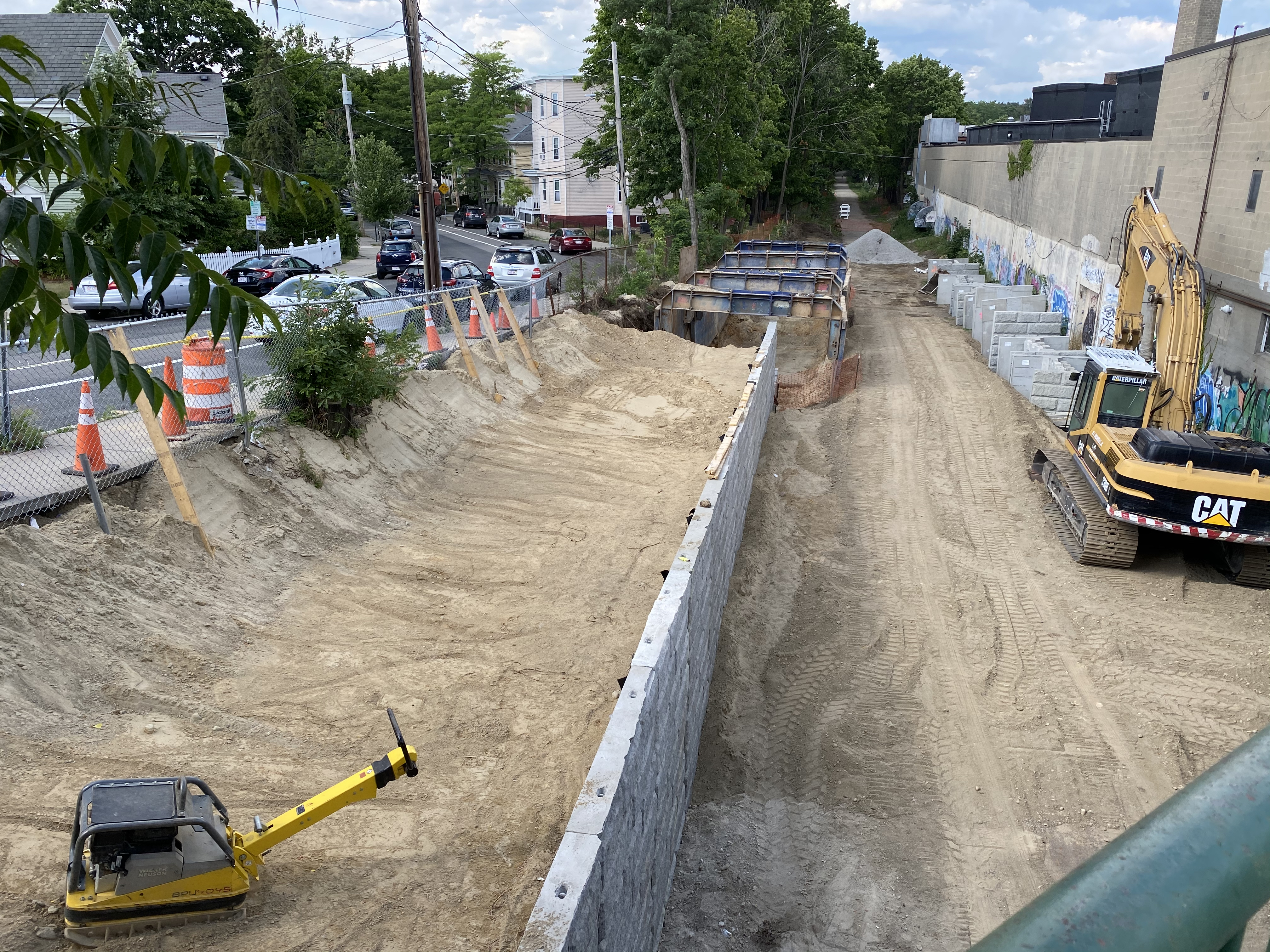 Construction of the Holworthy Street ramp in Cambridge, Massachusetts for the Watertown-Cambridge Greenway along the former Watertown Branch railroad right of way. Star Market is on the right.